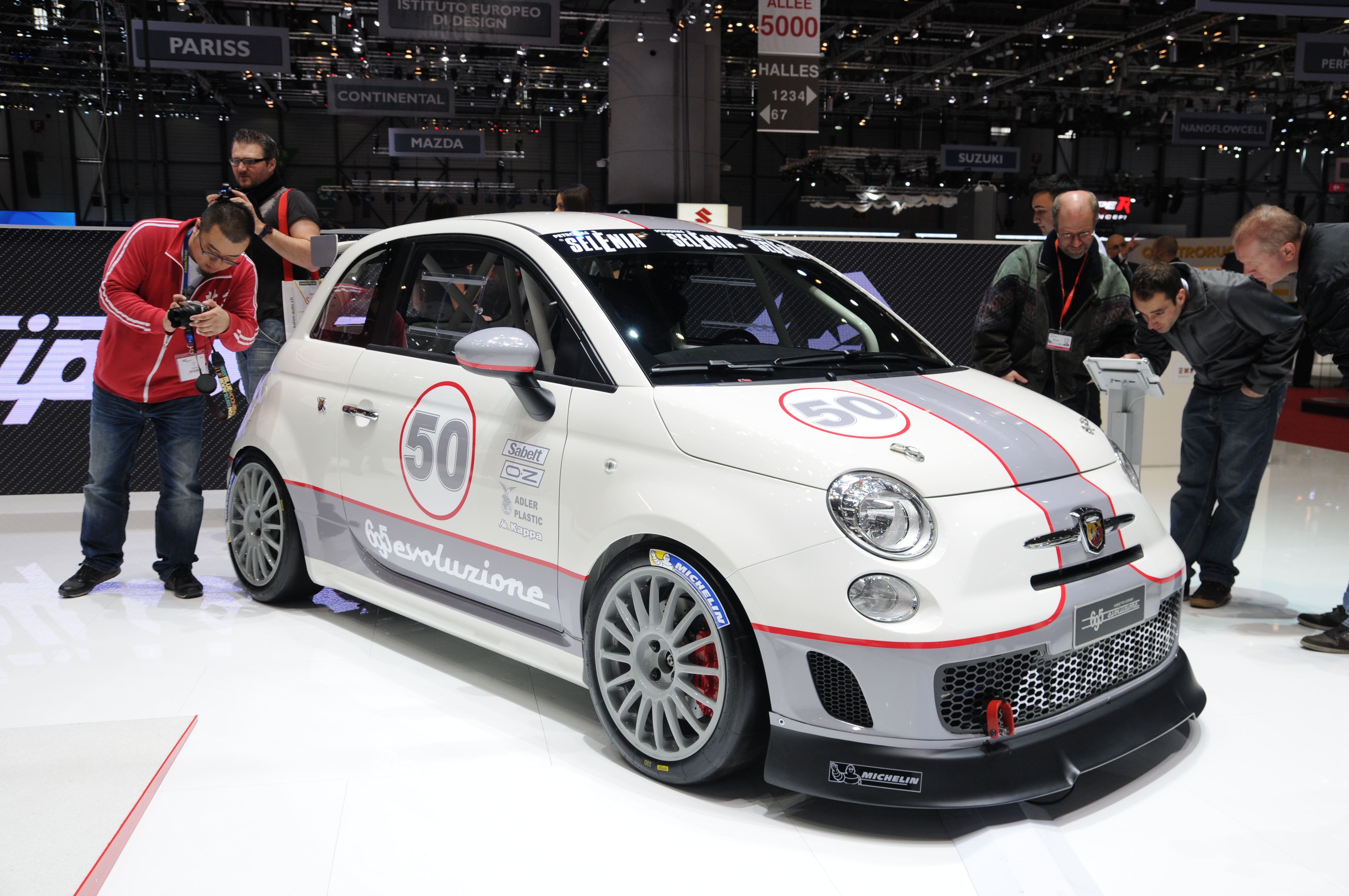 Geneva Motor Show 2014 (photo taken on the first press day)